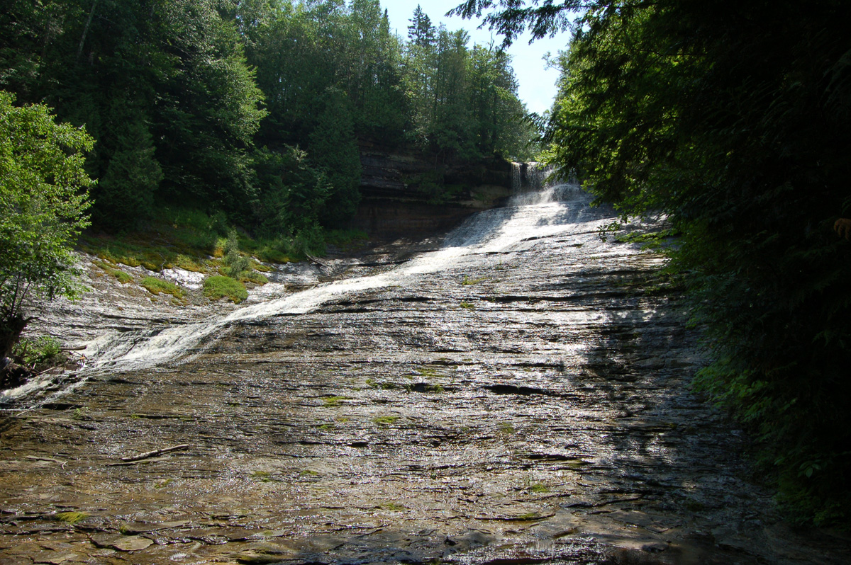 Laughing Whitefish Falls in the Upper Peninsula of Michigan taken from the base of the falls.